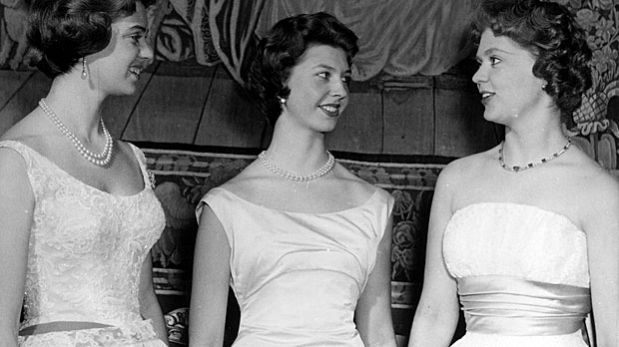 The princesses Margaretha, Désirée and Birgitta dressed up for party 1958.